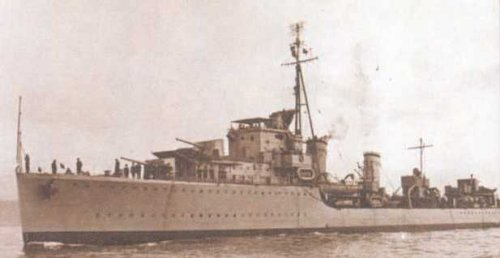 Turkish destroyer Sultan Hisar